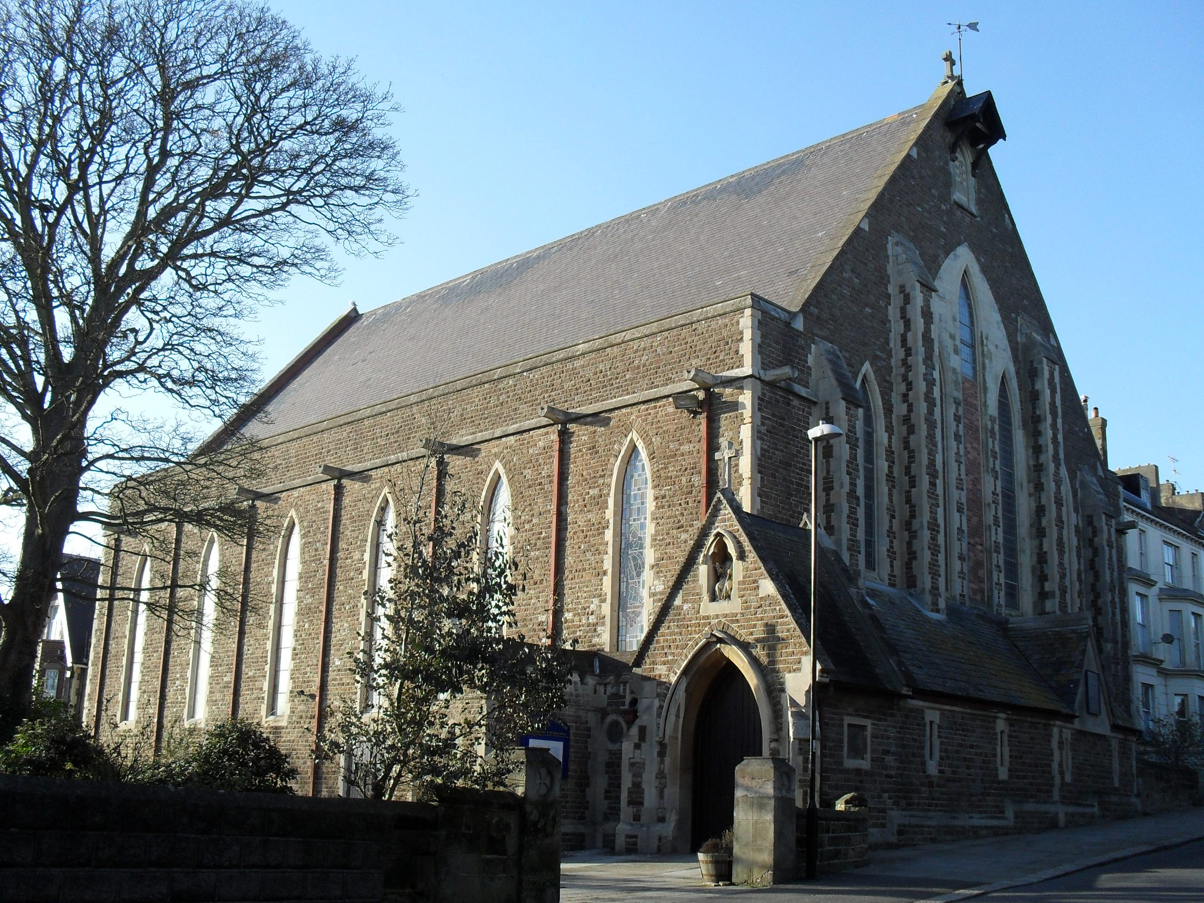 Church of St Thomas of Canterbury and English Martyrs, Magdalen Road, St Leonards-on-Sea, Hastings, East Sussex, England. A Roman Catholic church built in 1889 by Charles Alban Buckler. Listed at Grade II by English Heritage (Heritage Gateway Code 495311)